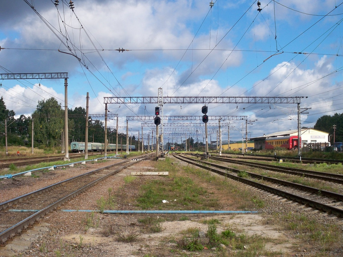 A view of Sosnovo railway station, Leningrad oblast